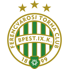 This is a logo for Ferencvárosi TC.